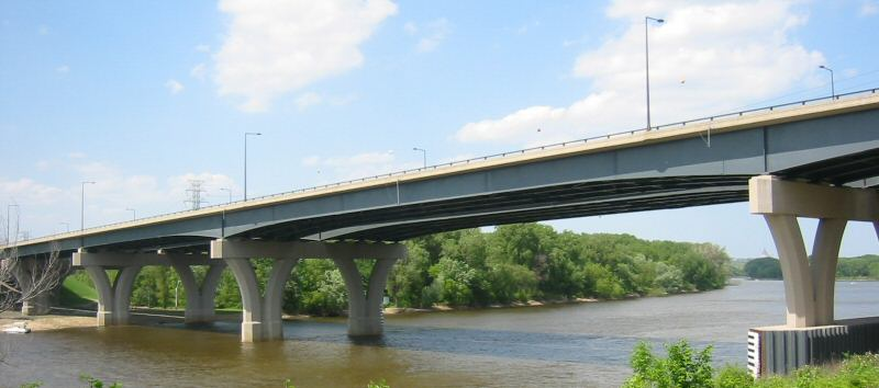 The Lexington Bridge in Saint Paul, Minnesota as viewed from the southwest corner, along the Big Rivers Regional Trail.